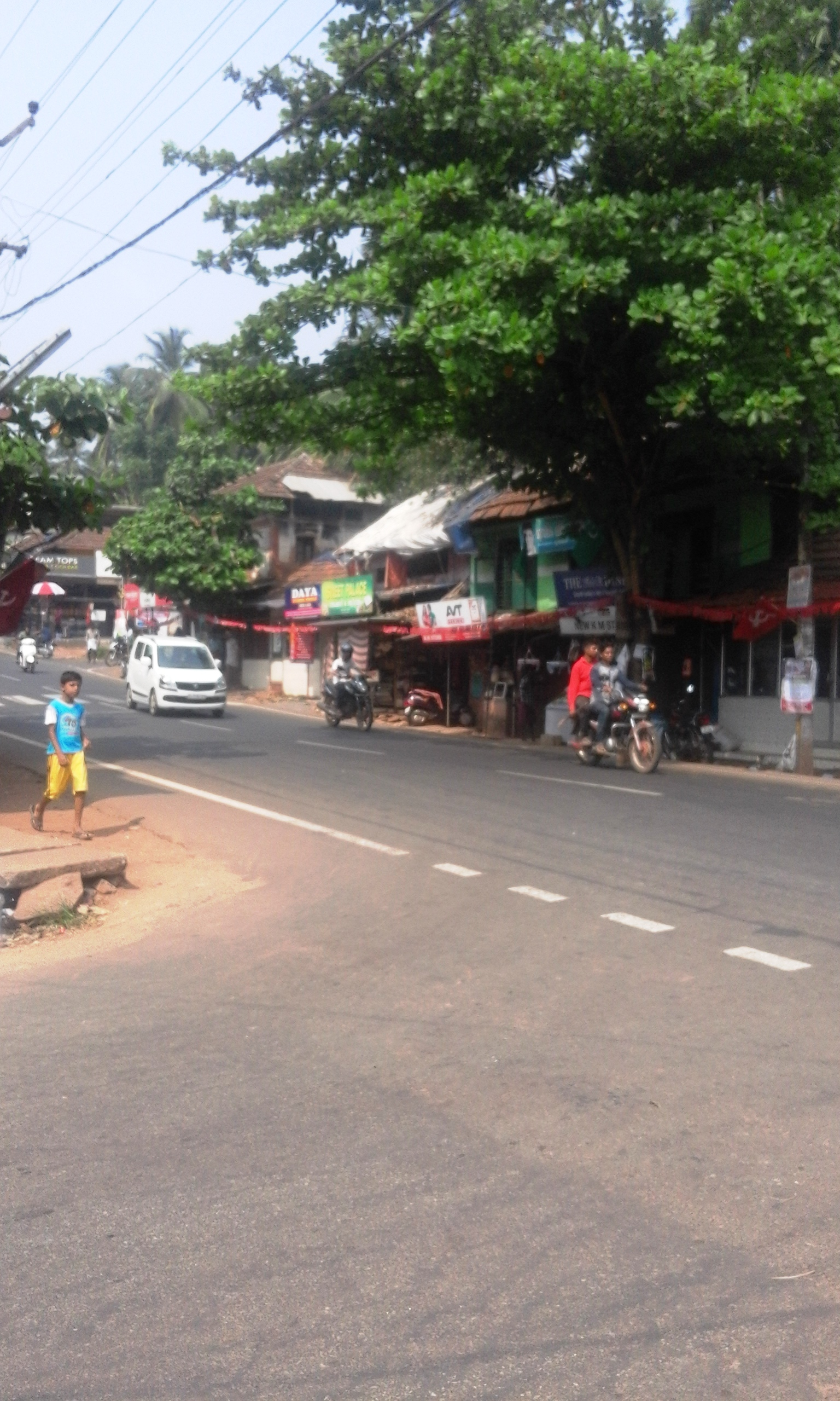 Kozhikode, Kerala province, India.